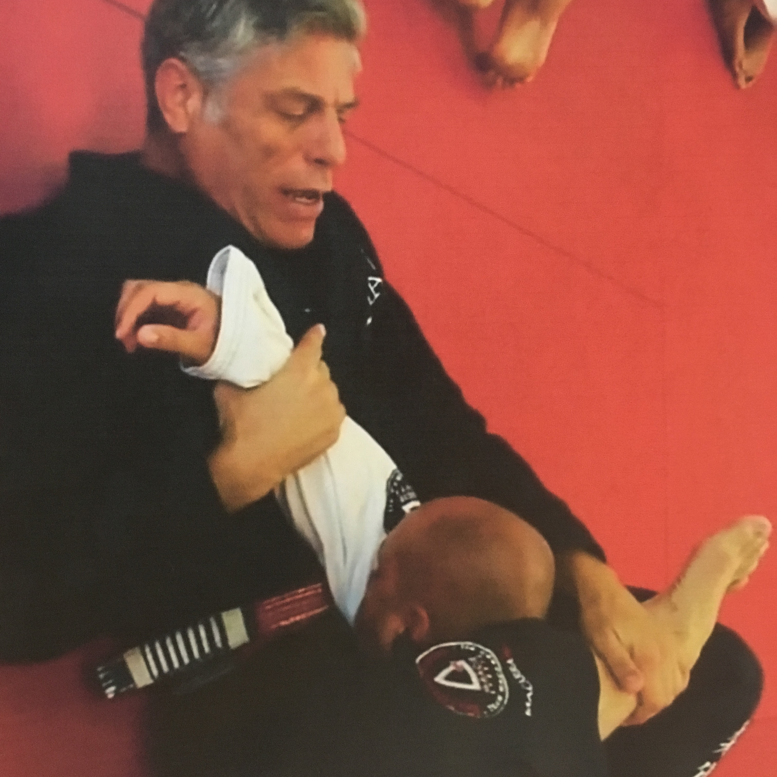 Marcio Macarrao demonstrates triangle choke.